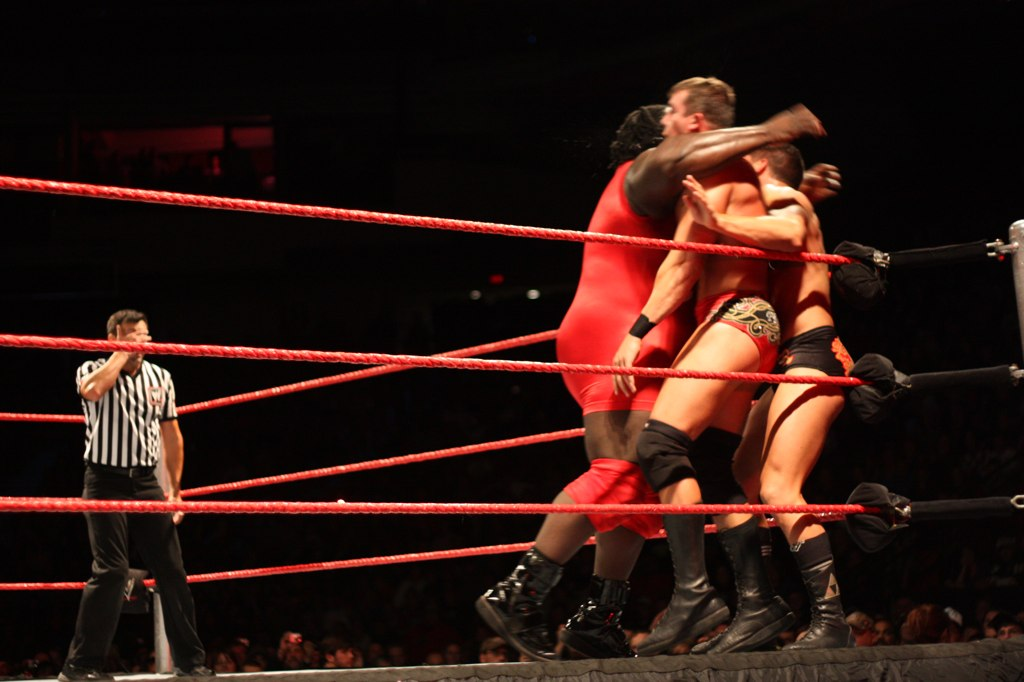 Fan favourite Mark Henry completes a double body splash in the corner as he and partner MVP take on Legacy at a WWE House Show.